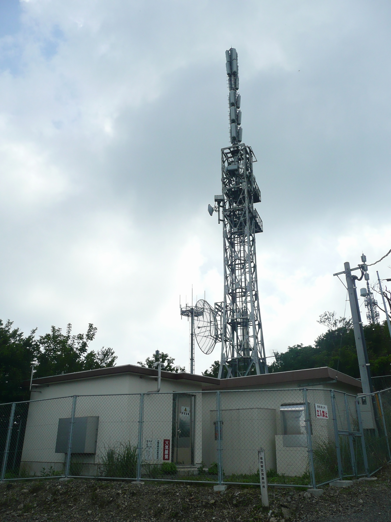 Akune Digital TV Repeater (MBC,KTS,KKB,KYT - Satsuma Town, Kagoshima, Japan)